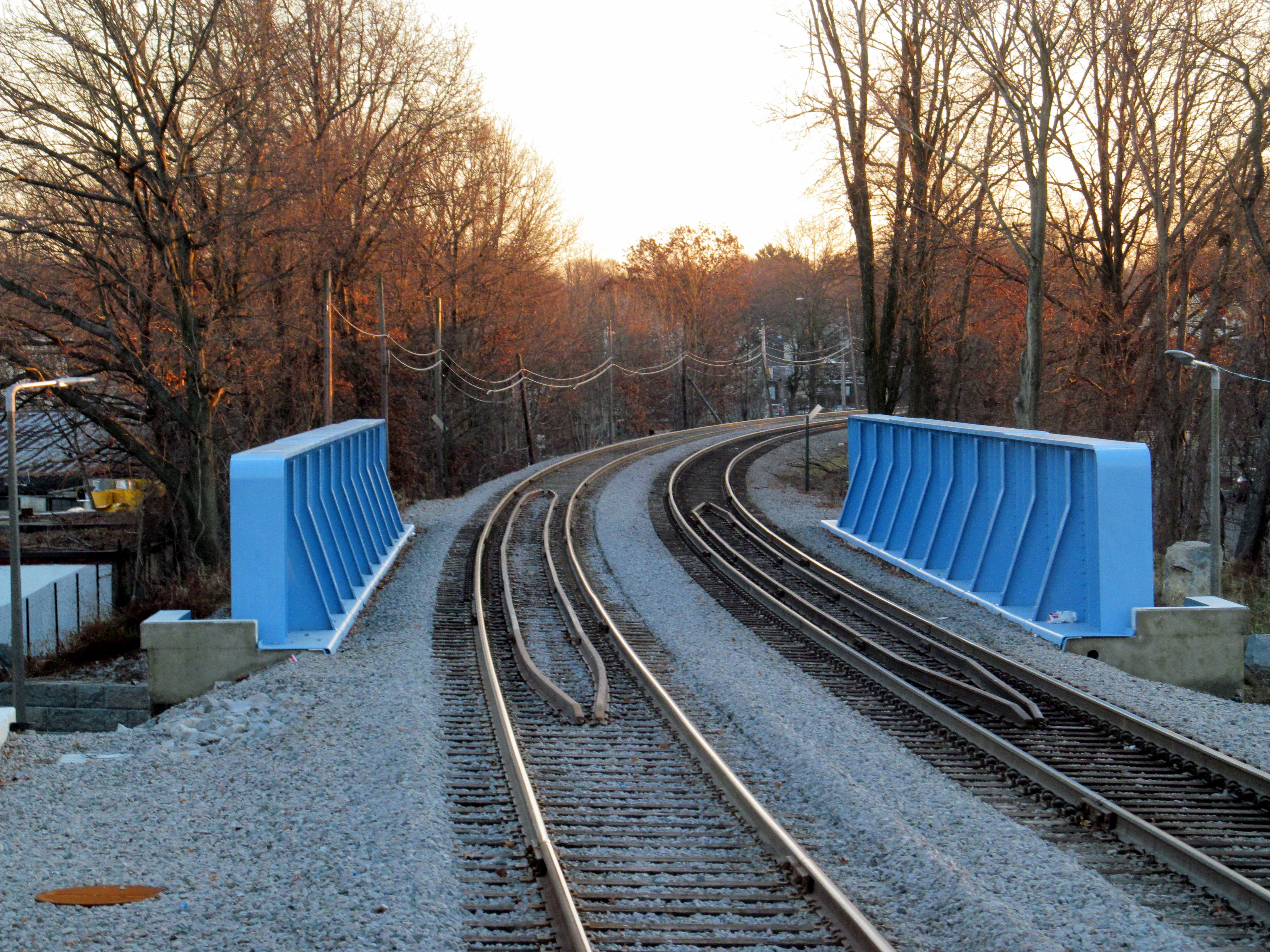 This bridge carries the MBTA Fairmount Line over Talbot Avenue just south of Talbot Ave station. The older bridge was replaced with this bridge in a single weekend in December 2011 as part of the Fairmount Line Improvement Project and used building techniques from the Fast 14 project.